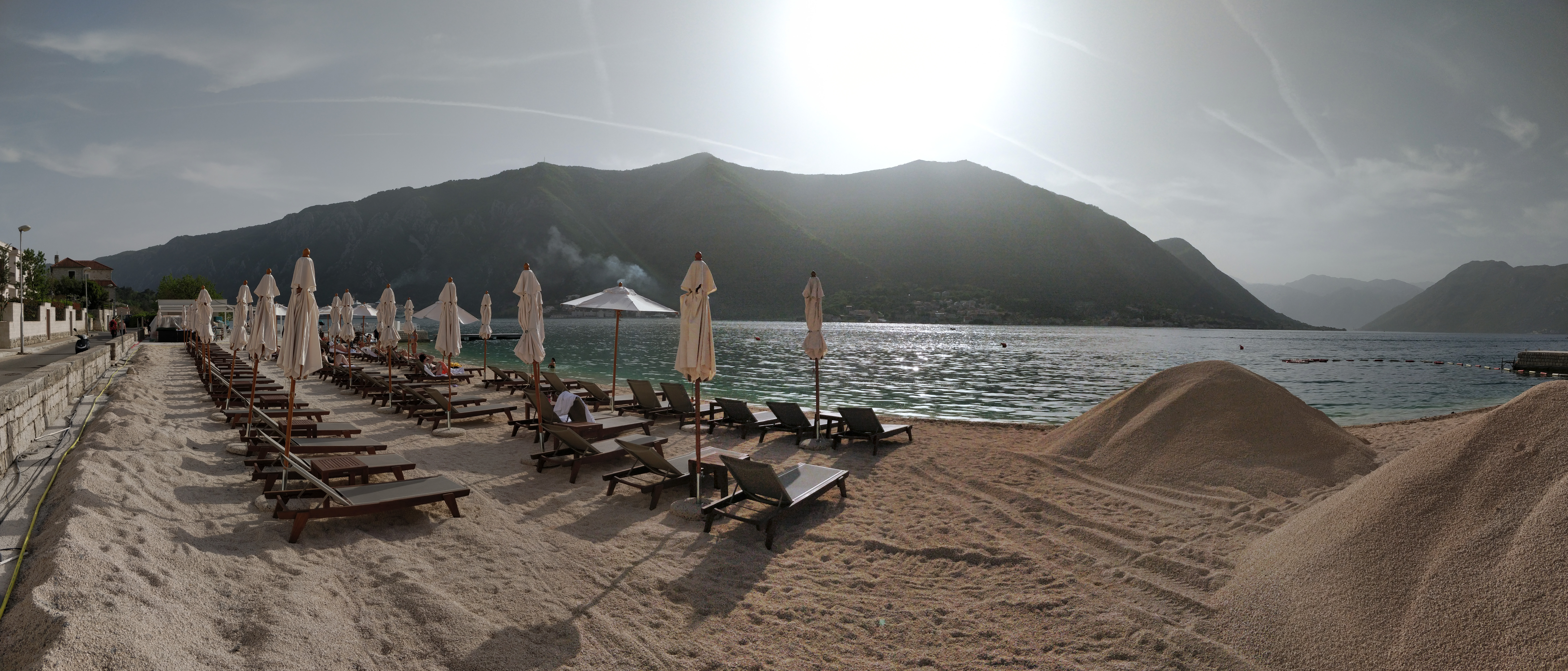 Panorama of a beach in front of Dobrota Palazzi